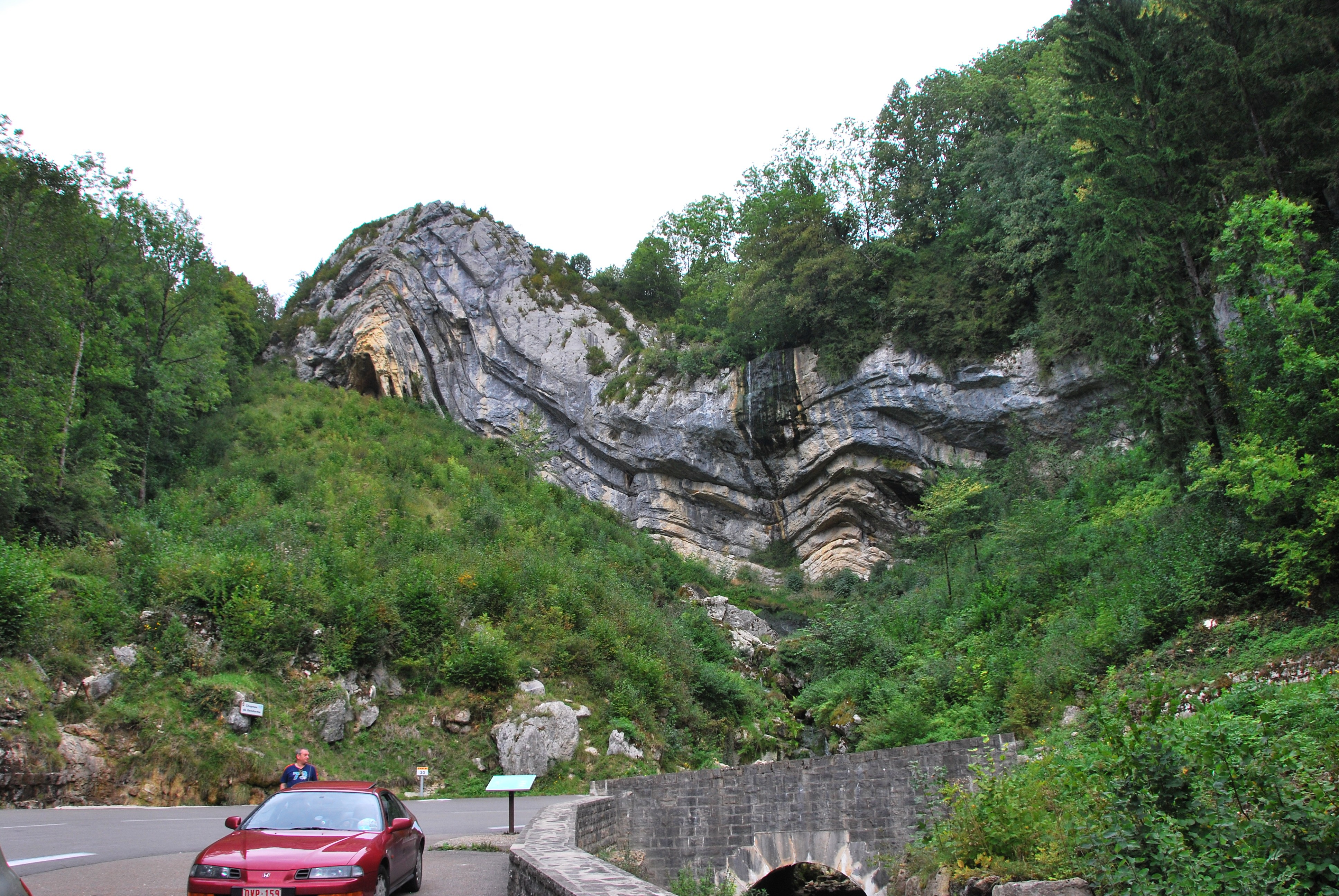 Chapeau de gendarme fold